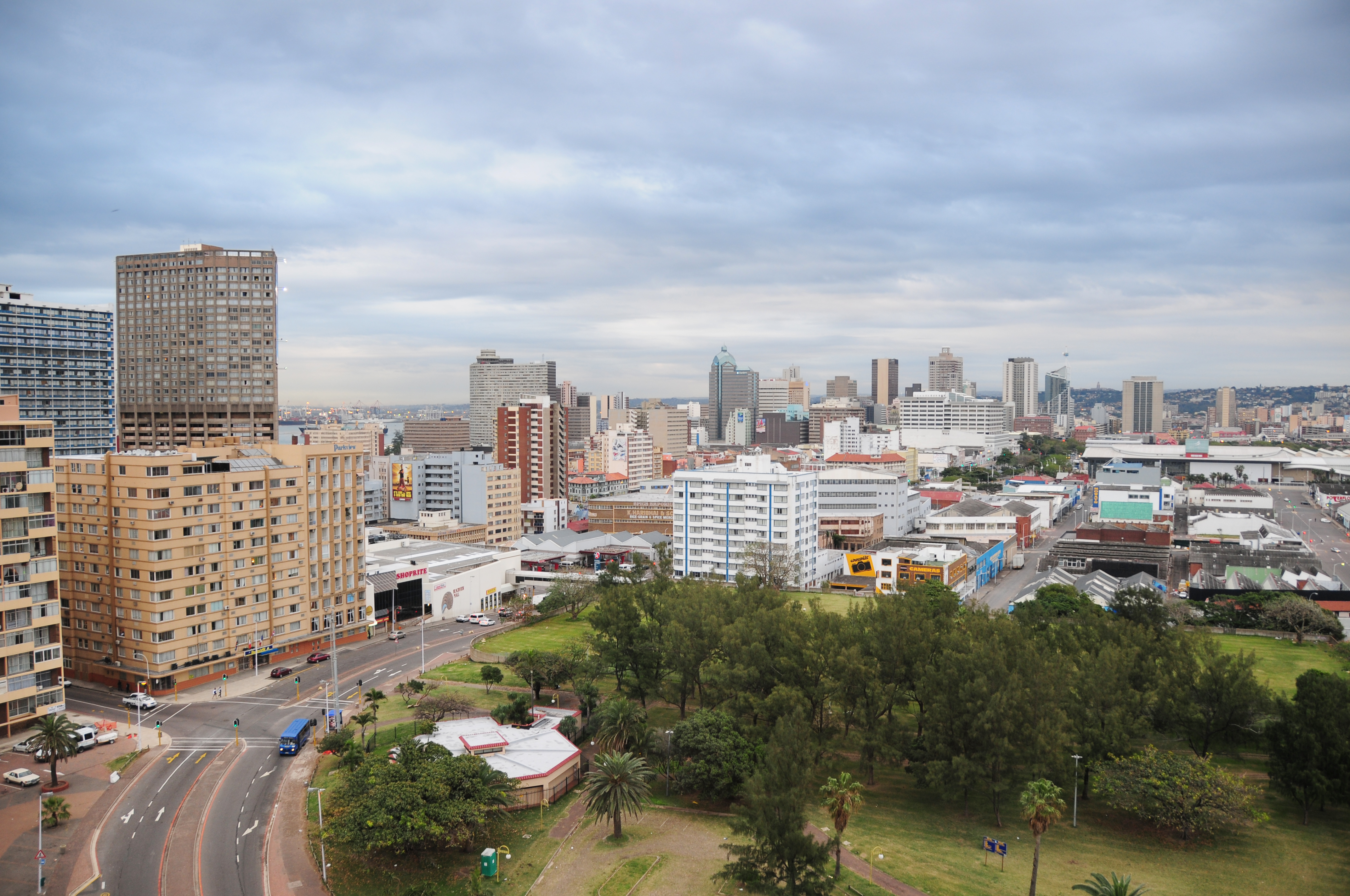 View West across Durban